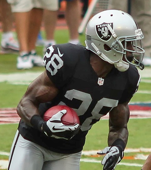 Phillip Adams, Oakland Raiders cornerback with the ball